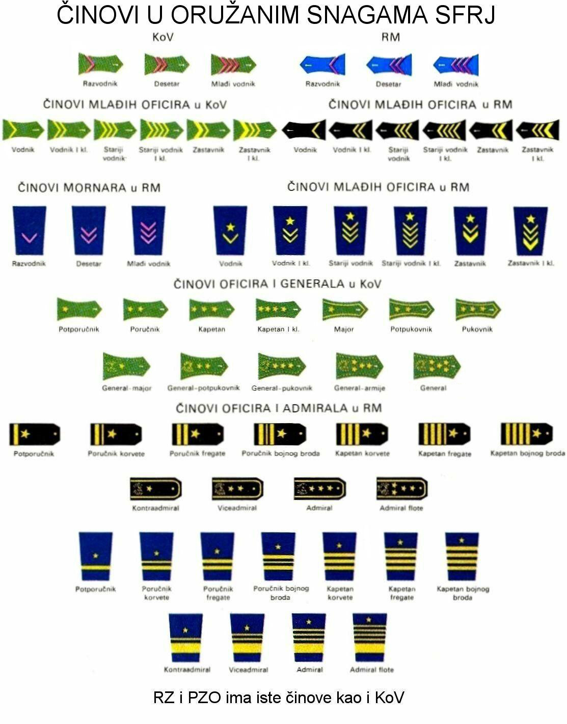 Ranks of amed forces of the Socialistic Federal Republic of Yugoslavia - Yugoslavian People's Army (YPA)